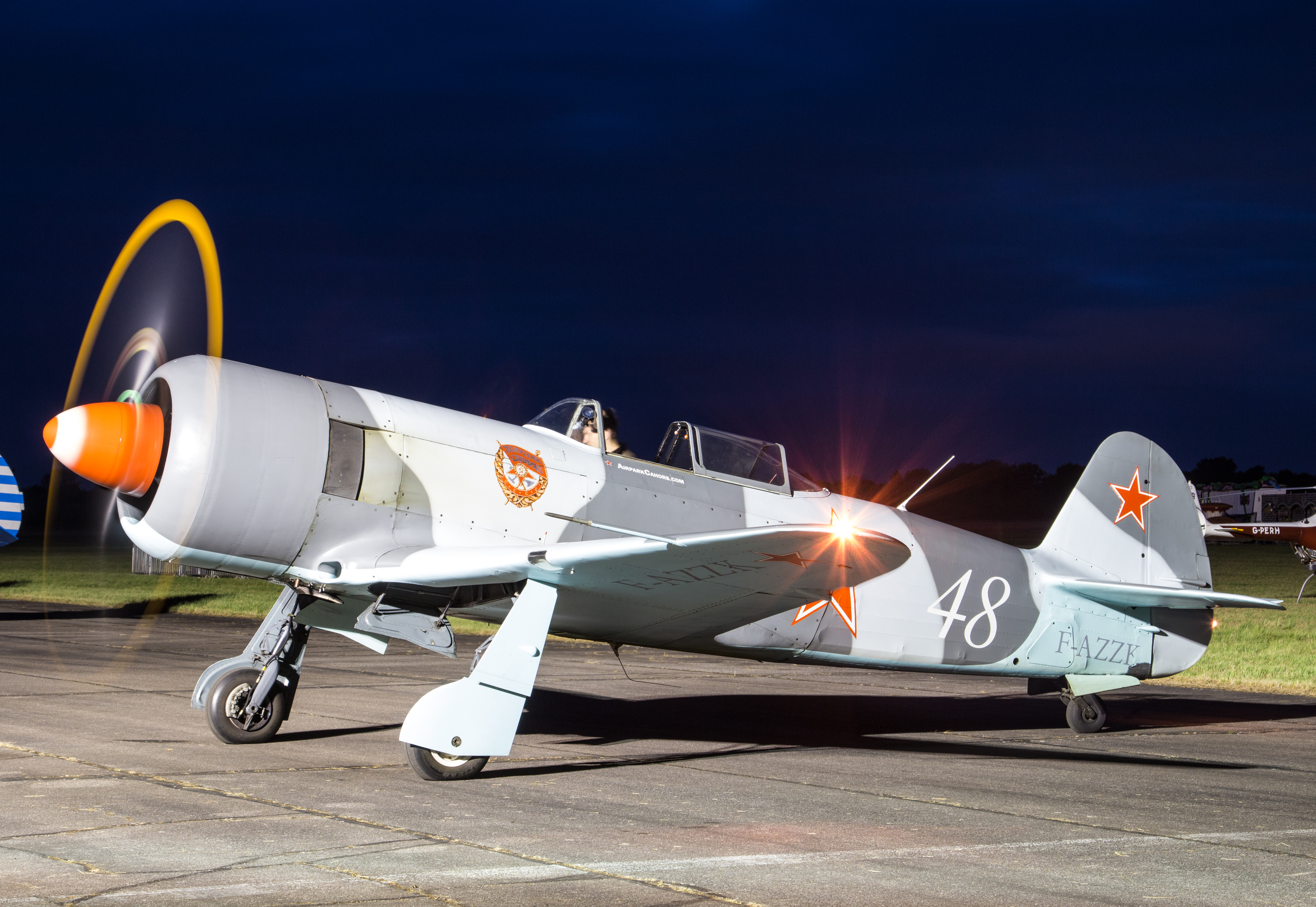 Abingdon Air & Country Show Nightshoot 2017, Oxfordshire